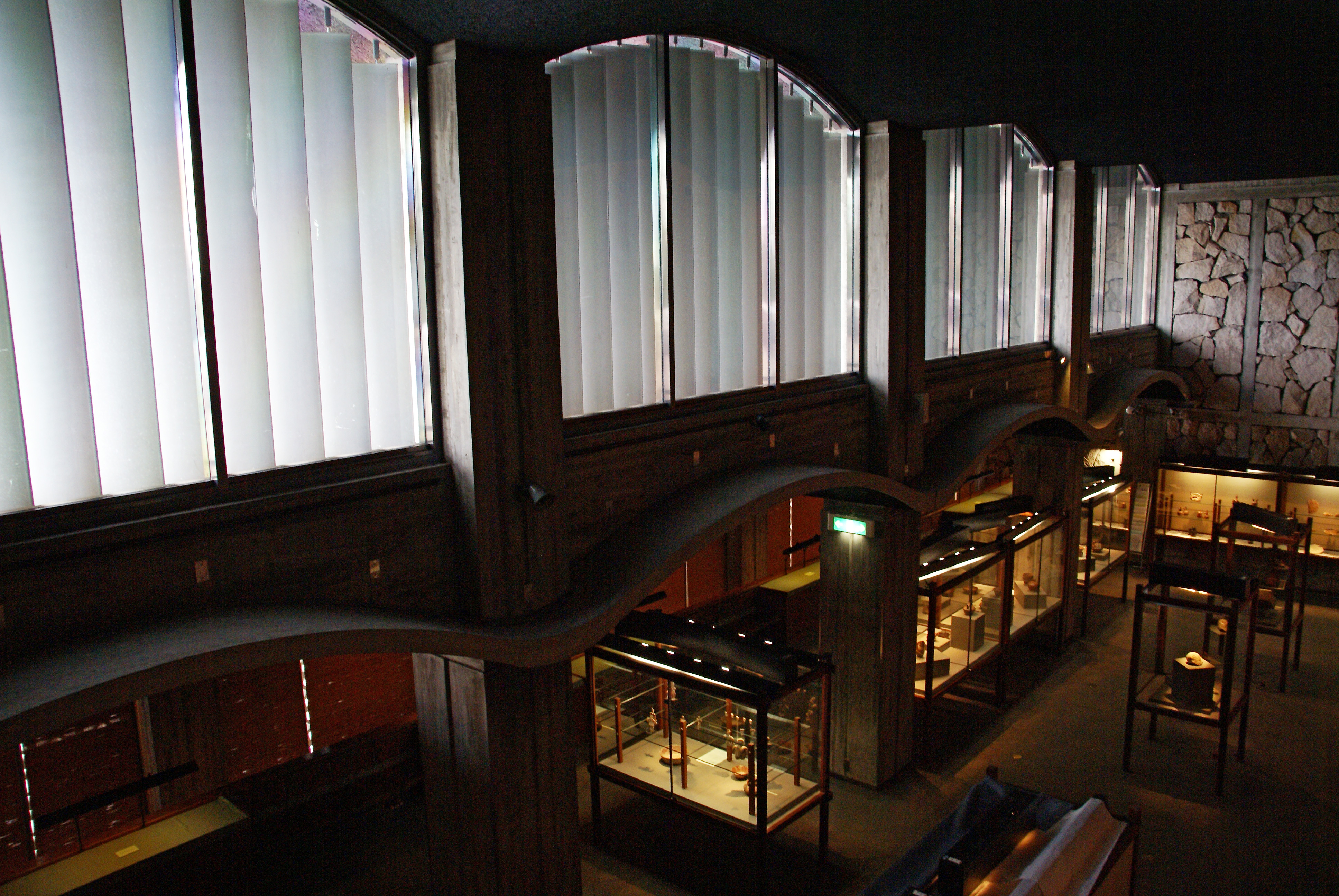 Houn Memorial Museum in Kobe, Hyogo prefecture, Japan